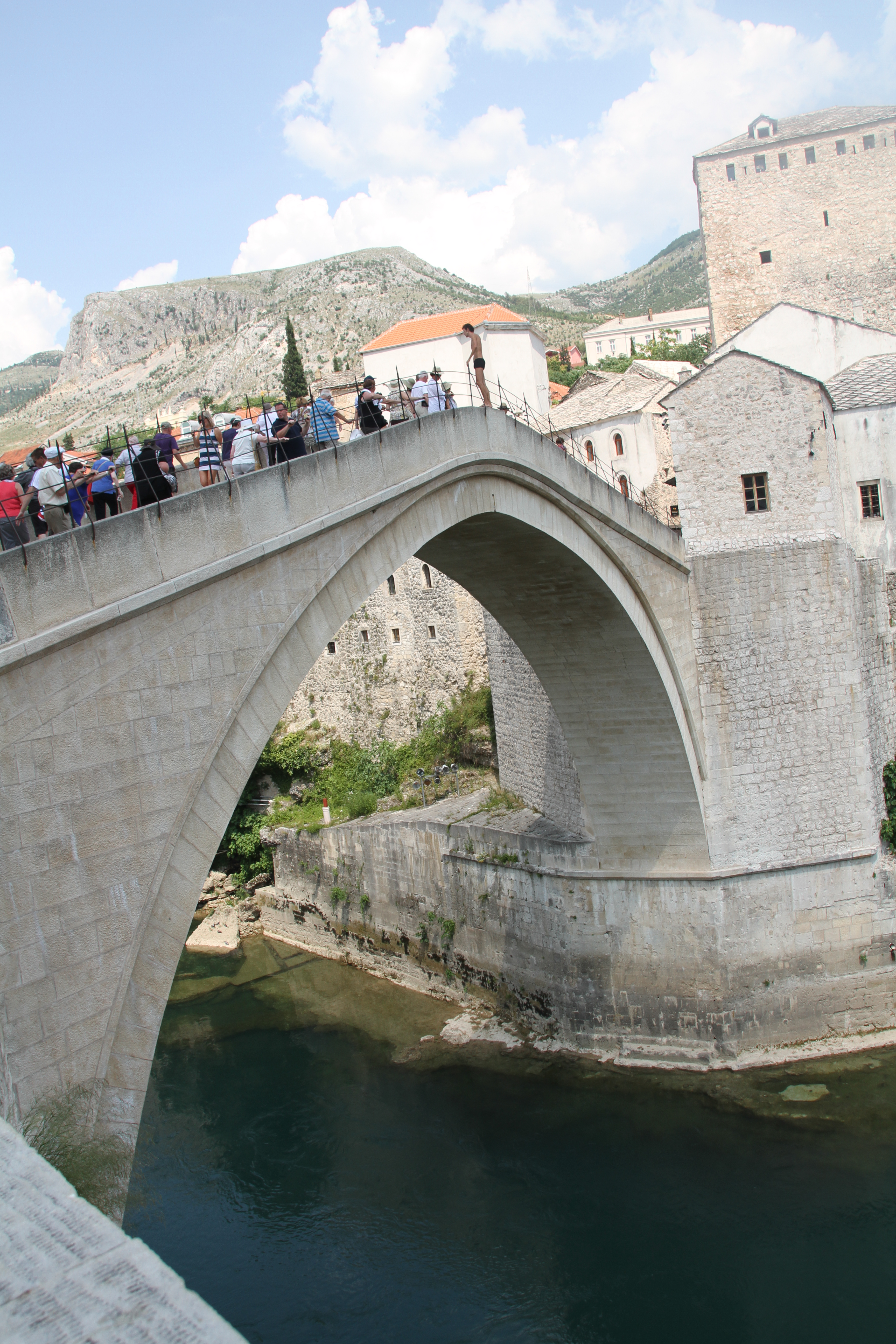 Central Old Town of mostar, federatsia, Bosnia-Hercegovina.